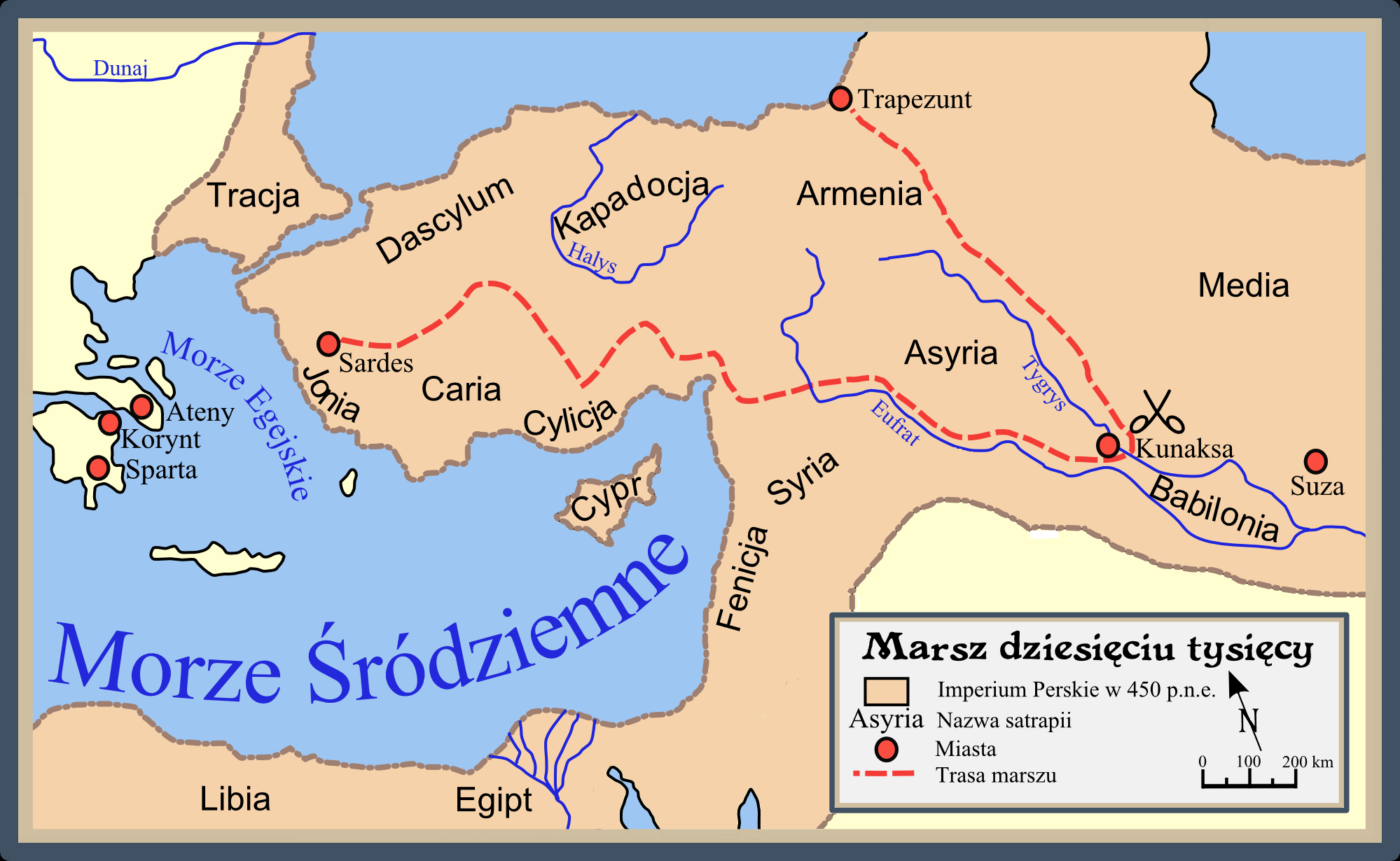 Ten Thousand march